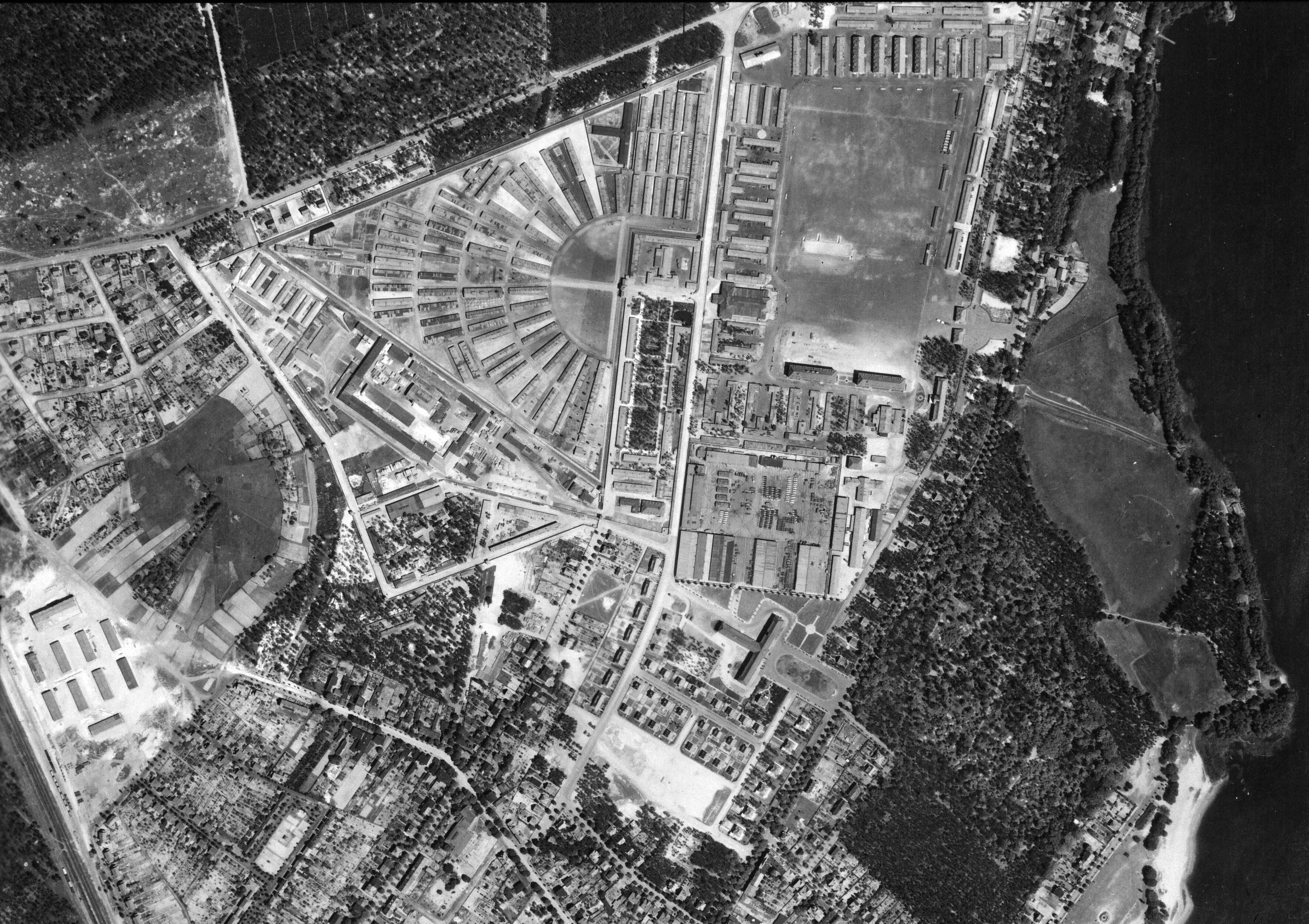 Date: 20 May 1943 Date known Location: Sachsenhausen; North East Brandenburg; Germany Coordinates (lat, lon): 52.762529, 13.260813 Description: Sachsenhausen concentration camp. UNI: NCAP-000-000-008-616 Sortie: D/0605 Frame: 5168 Corporate bodies 542 Squadron (RAF) Image type: Vertical Scale: 9500